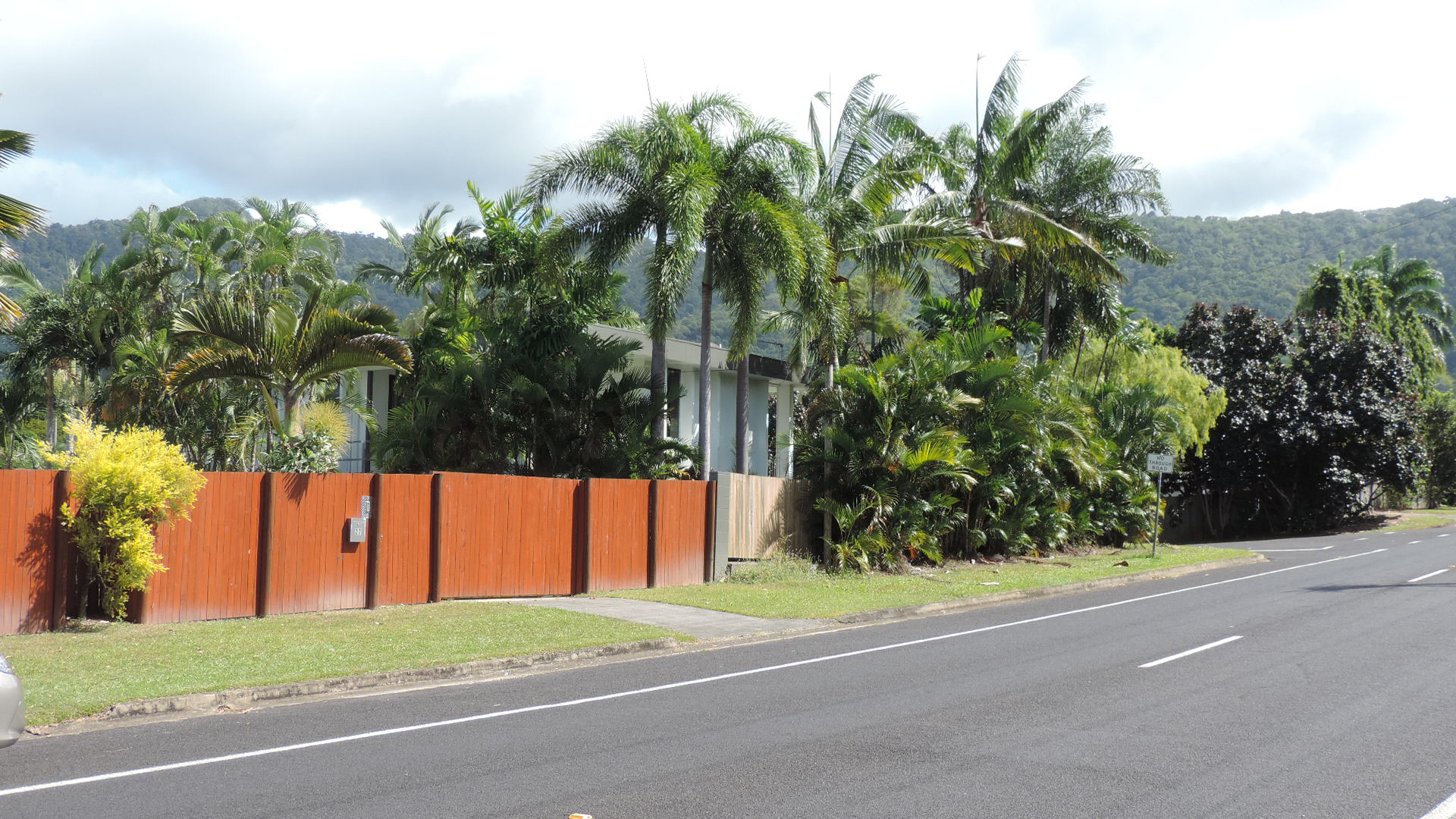 Looking west along Stanton Road from junction with Gavin Street with mountains in the distance, Smithfield, 2018